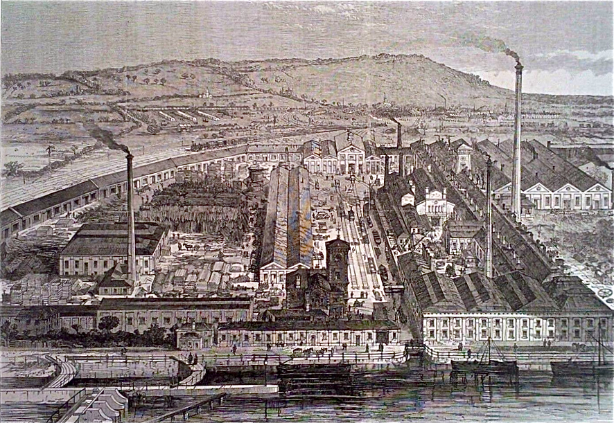 Clayton and Shuttleworth, Lincoln 1869.